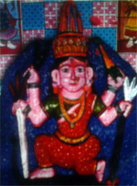 कुलस्वामिनी श्री धनदाई माता